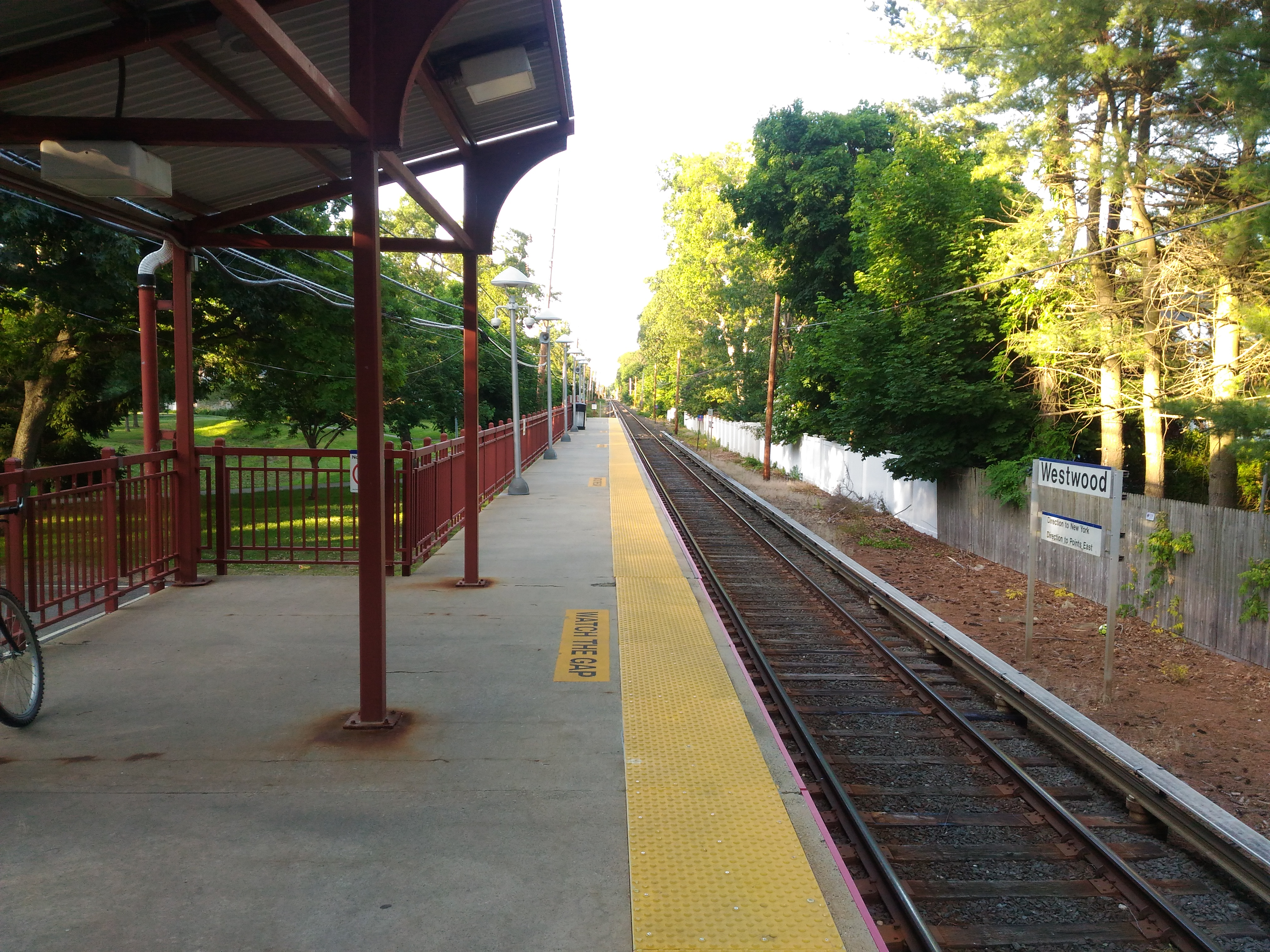 The platform level of the "Westwood" Long Island Railroad station, facing northward.